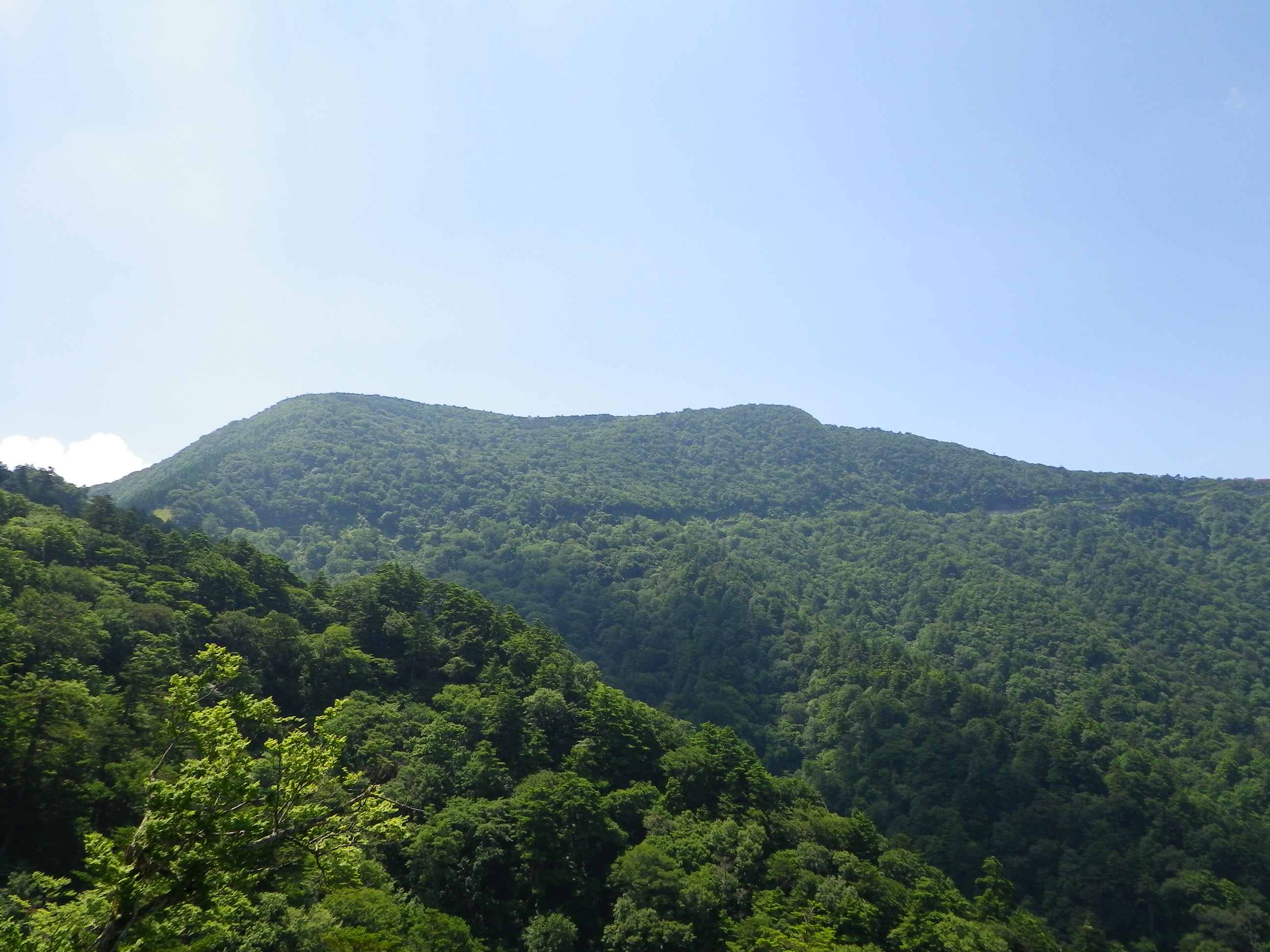 Tengunomori peak as seen from the NNW in Tengu Highland on the border between Ehime and Kochi Prefectures, Japan.